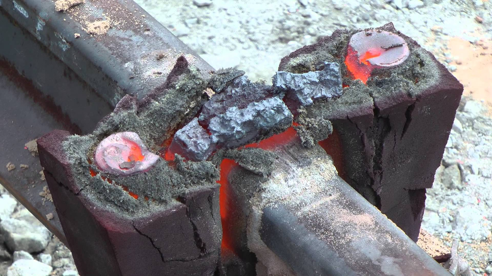 جوشکاری ترمیت در ریل